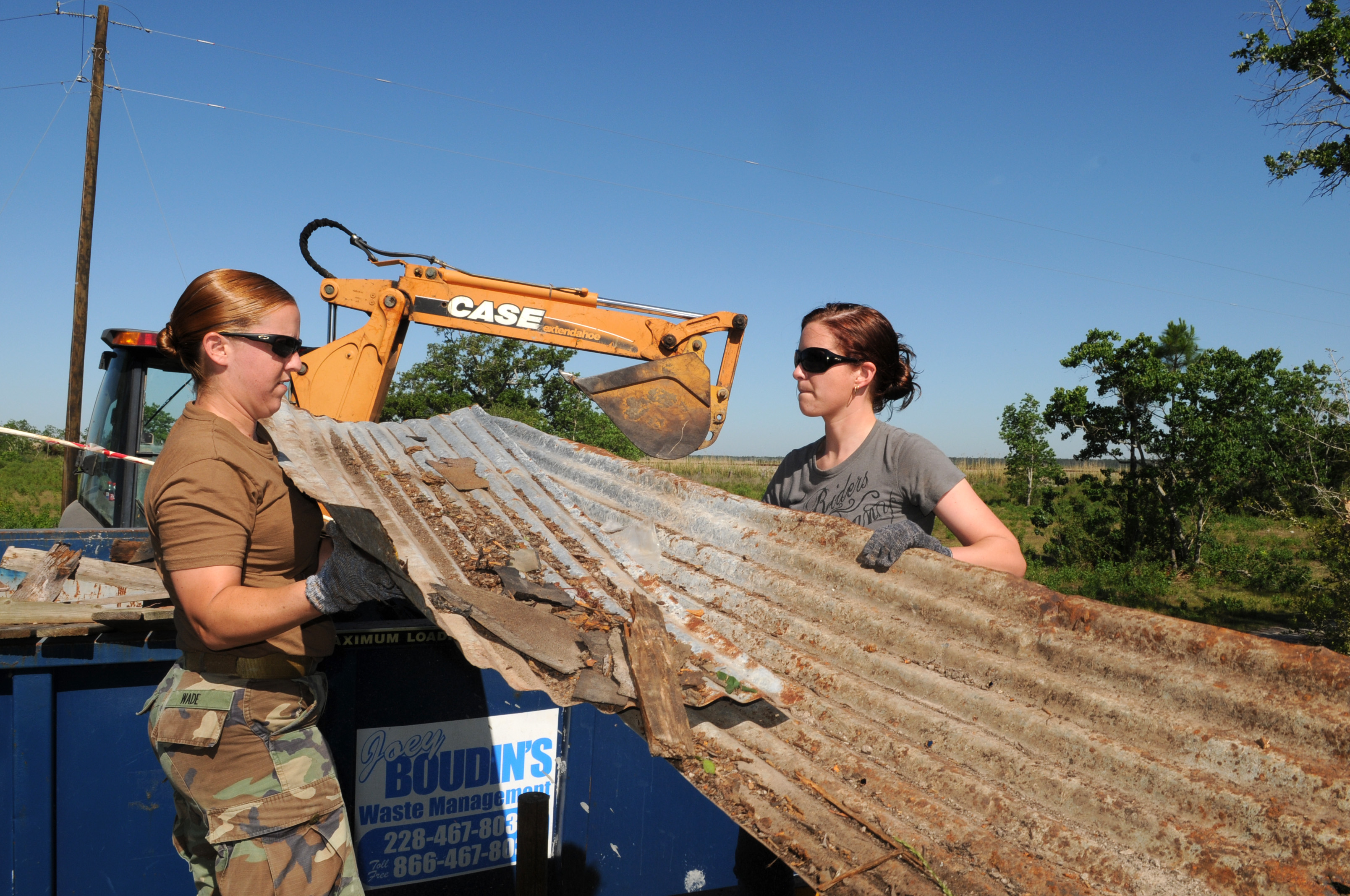 HANCOCK COUNTY, Miss. (May 29, 2011) Seabees assigned to Naval Mobile Construction Battalion (NMCB) 11 clear debris from Ansley Preserve, a protected marshland that was damaged by hurricane Katrina in 2005. The cleanup is part of the Renew Our Rivers project run by Mississippi Power with 65 community partners. (U.S. Navy photo by Mass Communication Specialist 2nd Class Jonathan Carmichael/Released)